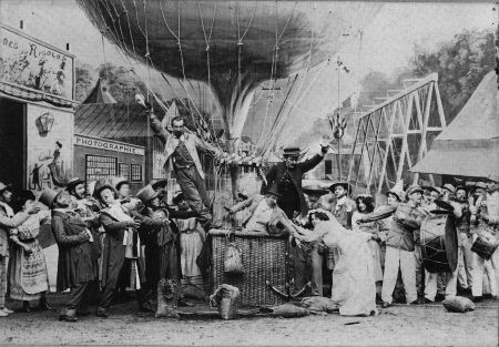 Still from the 1908 Georges Méliès film L'Ascension de la rosière.